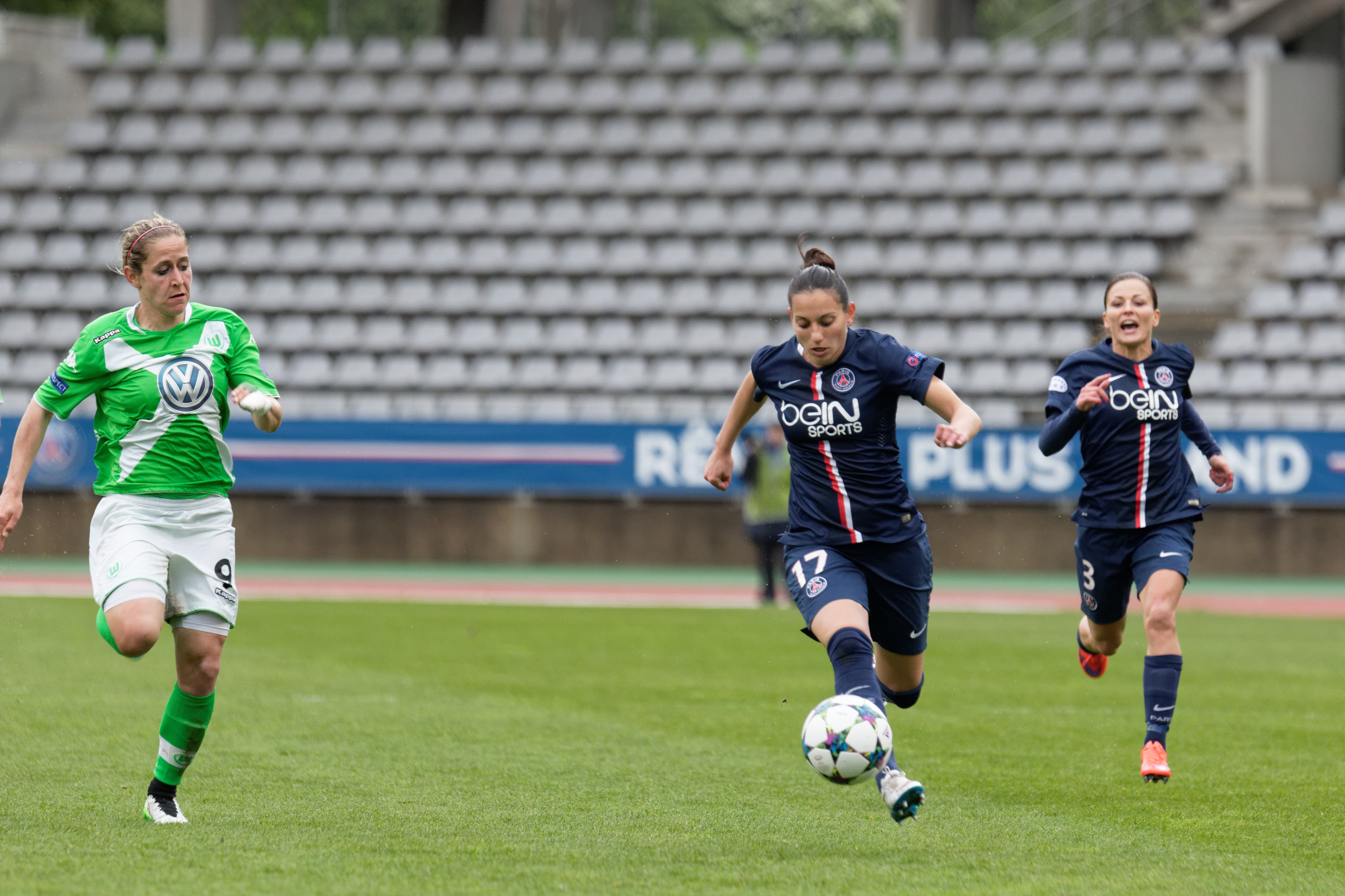 UEFA Women's Champions League, PSG - Wolfsburg, 26 April 2015.